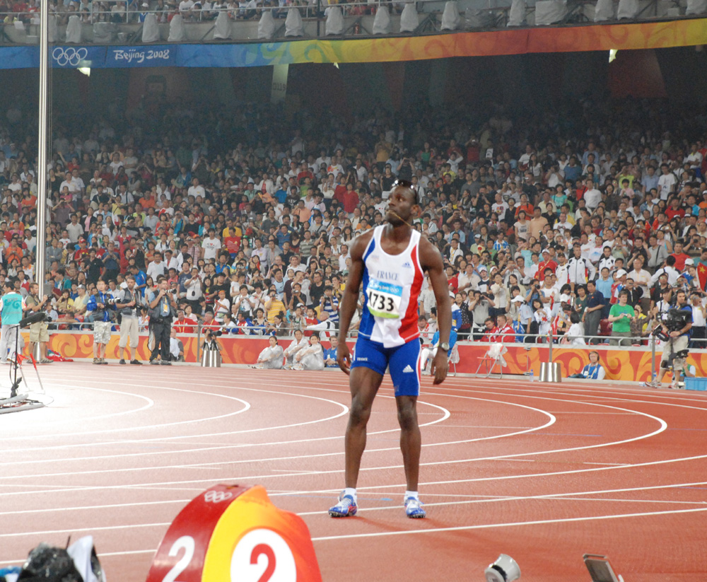 French athlete Leslie Djhone after the 400 meters in Beijing, where he takes the 5th spot.